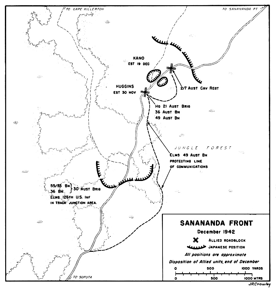 USA-P-Papua-11 Map 11 milner Sanananda Front December 1942 .jpg